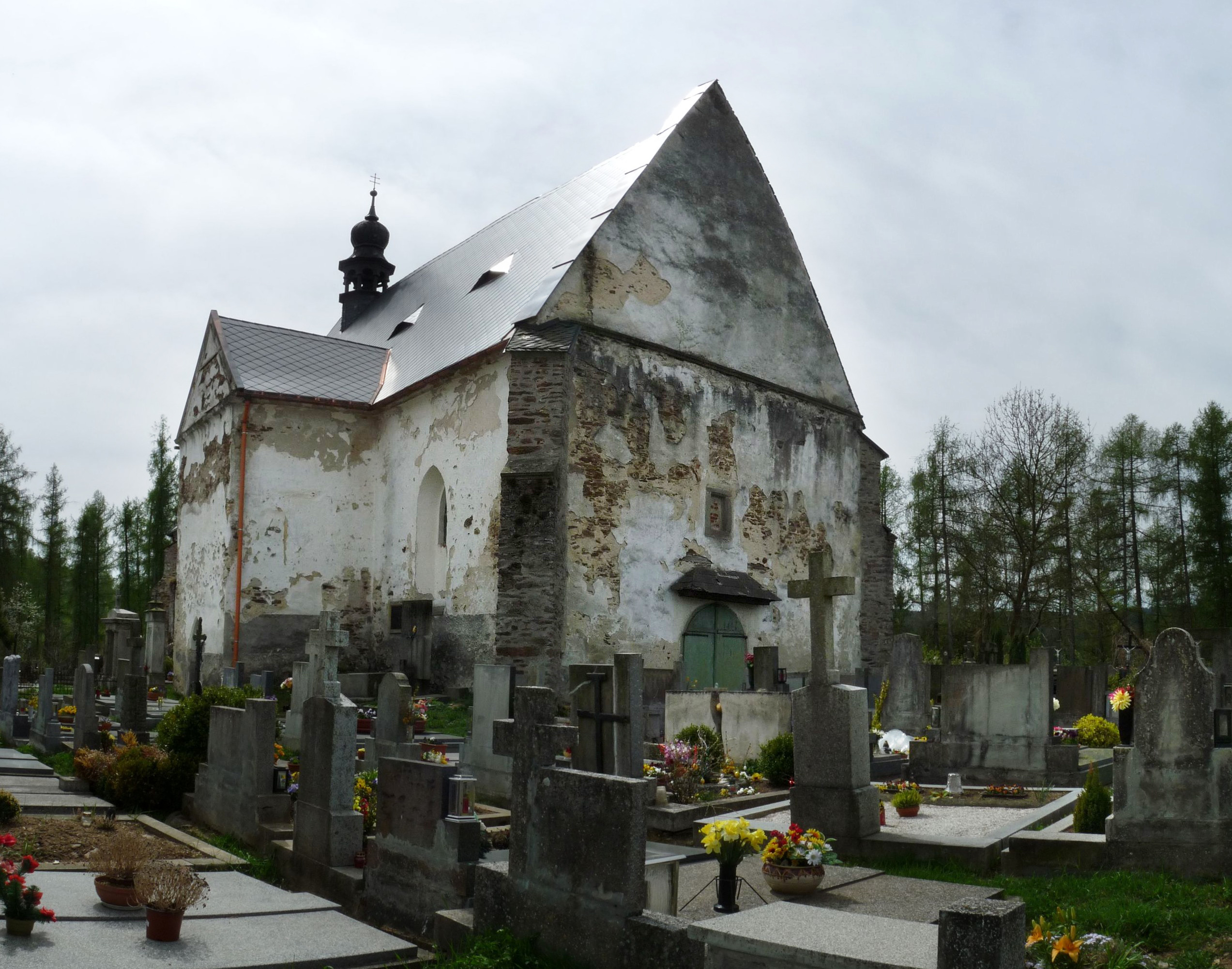 Mary Magdalene Church in the village of Velhartice, Klatovy District, Czech Republic